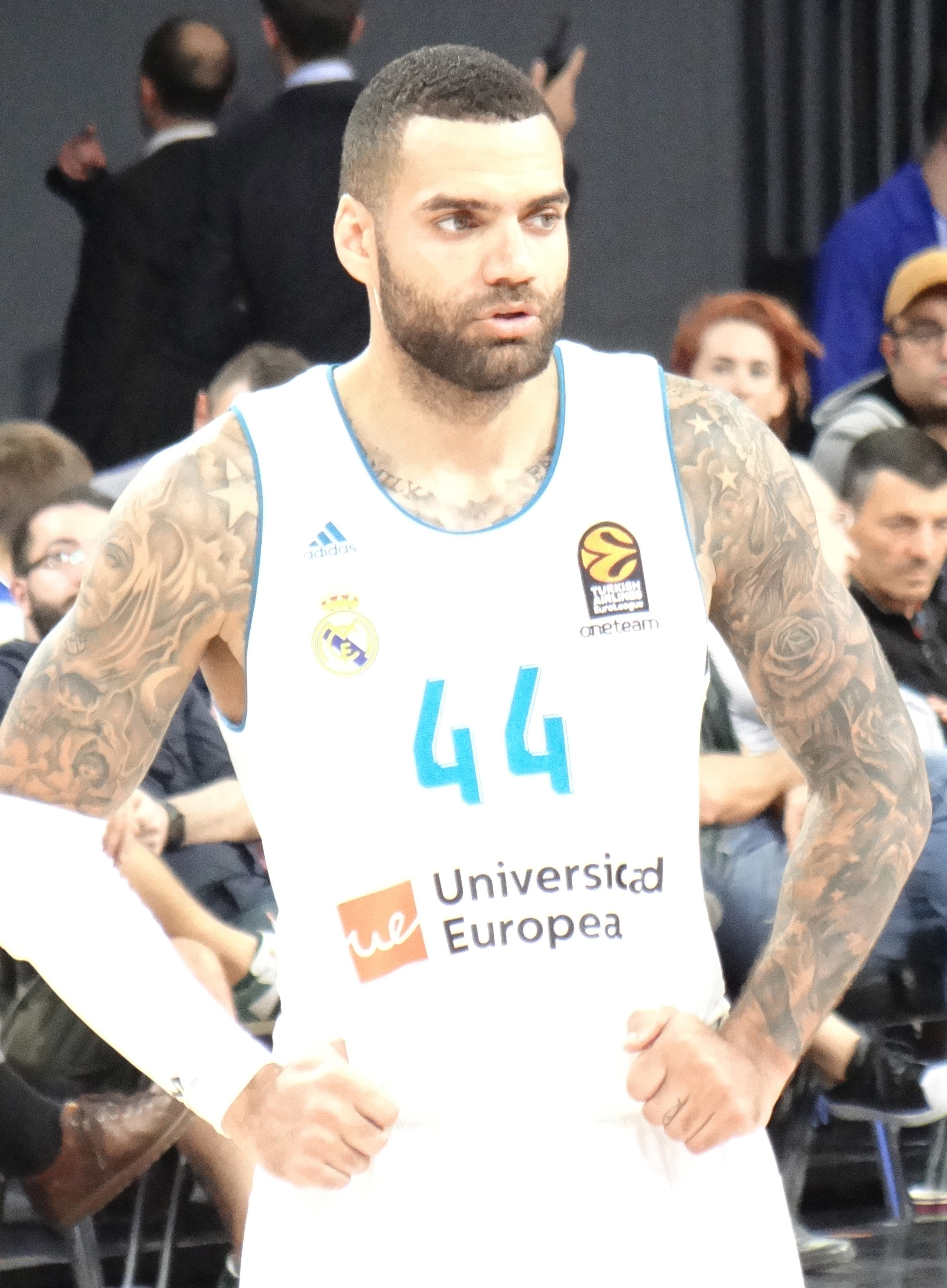 Jeffery Taylor 44 Real Madrid Baloncesto Euroleague 20171012